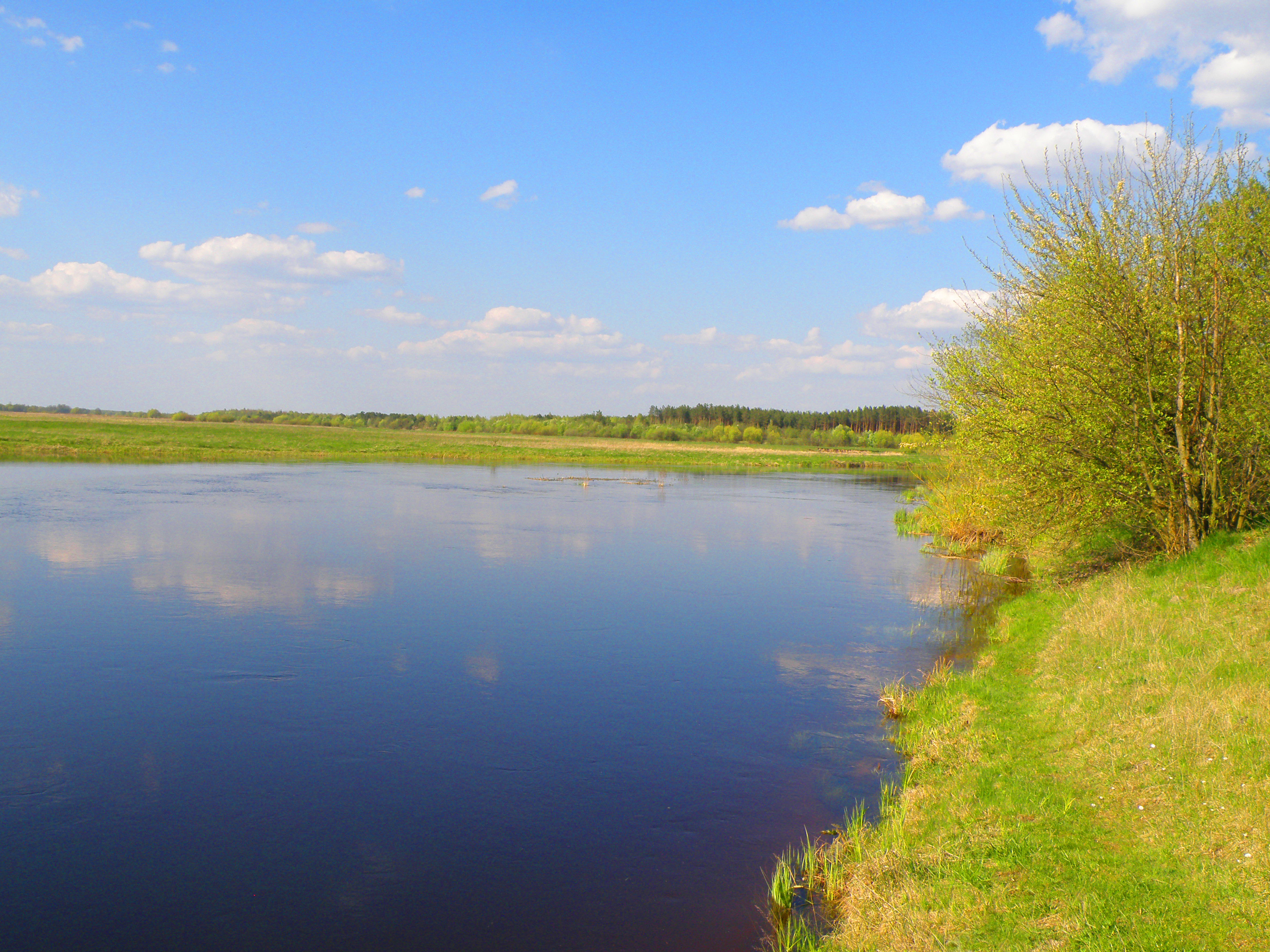 Turija river near Luchunu village in Volun oblast(Ukraine)